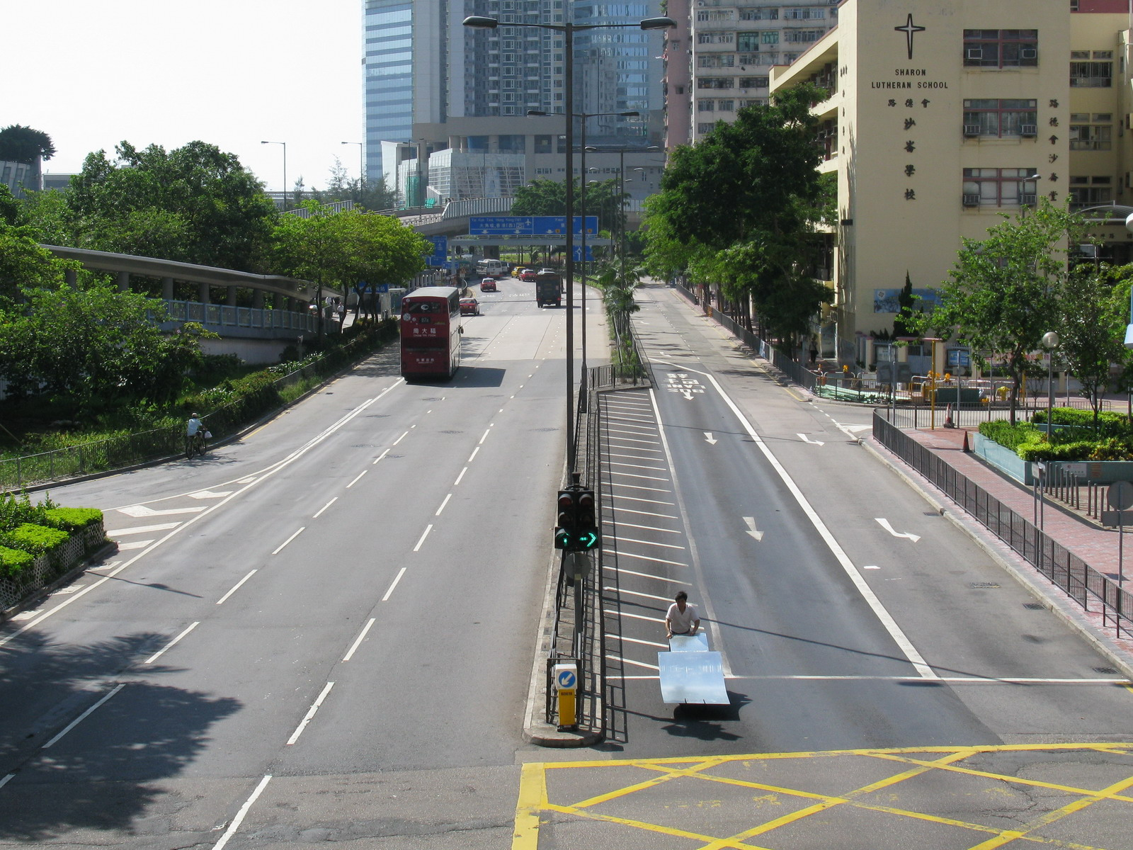 Cherry Street, view towards Tai Kok Tsui Road